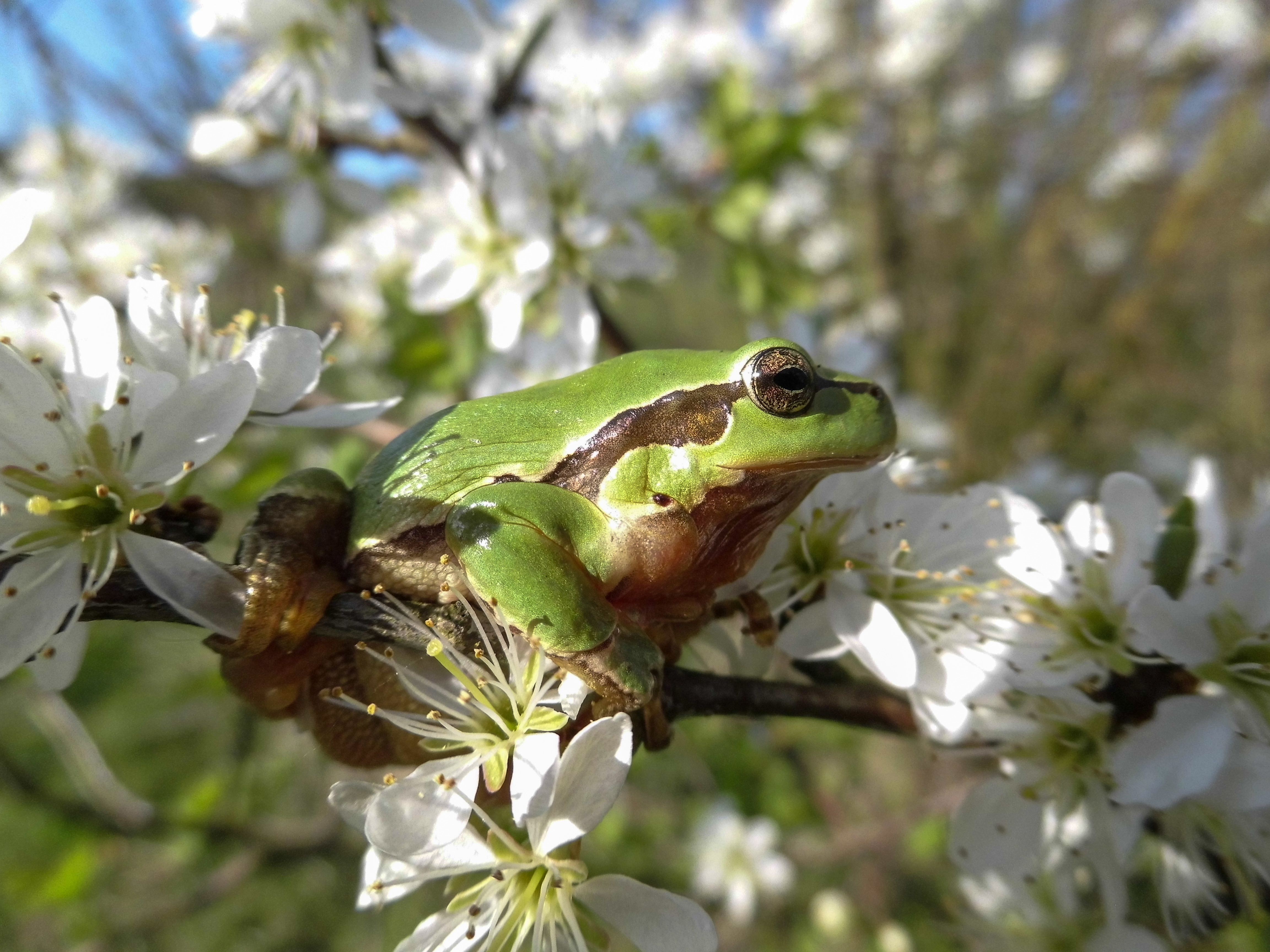 European tree frog (Hyla arborea) in the nature reserve "Weiherkette Oberreichenbach" (Landkreis Fürth, Bavaria, Germany)